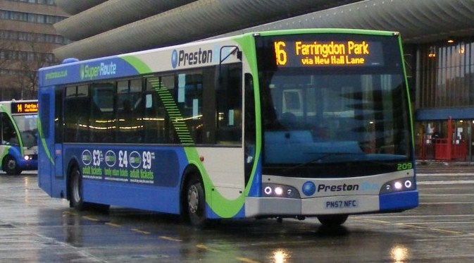 Preston Bus 209 PN57 NFC Scania / East Lancs Esteem in Preston Bus Station.